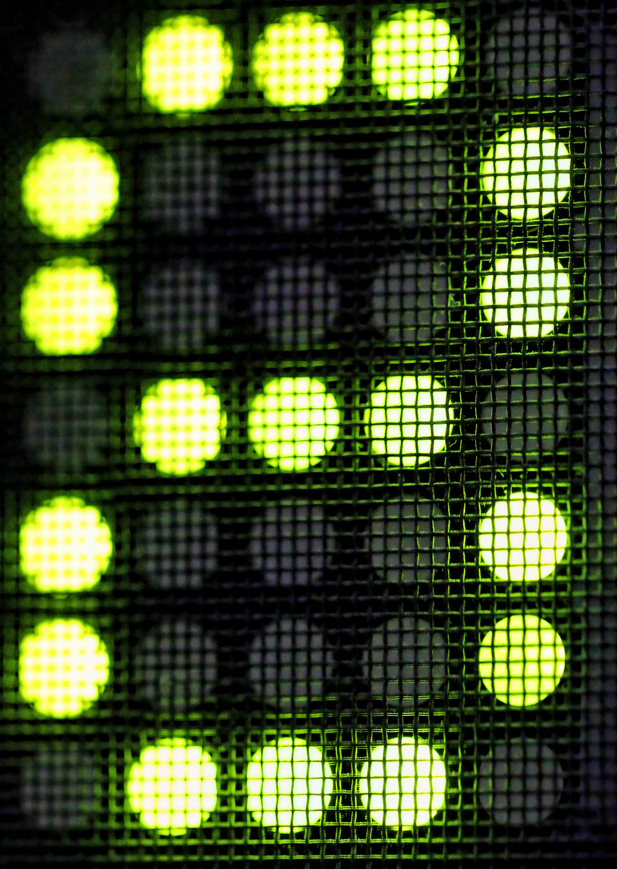 Many leds making a number eight.